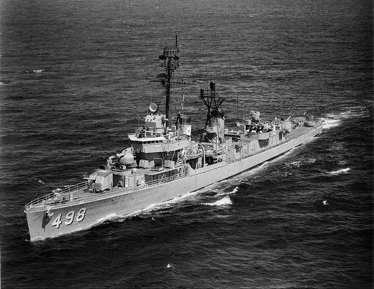 The U.S. Navy destroyer USS Philip (DD-498) underway in the Pacific Ocean on 9 July 1968. This was very near the end of her service. She was decommissioned on 30 September 1968 and stricken on the following day.